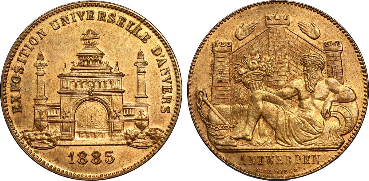 Exposition universelle d'Anvers, 1885